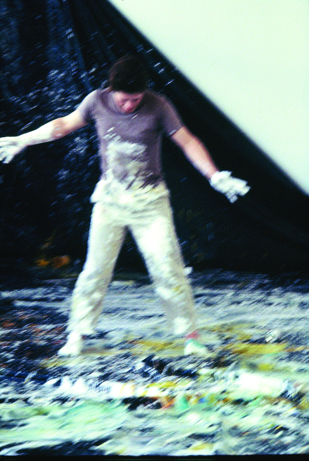 Akshun Performance Artwork